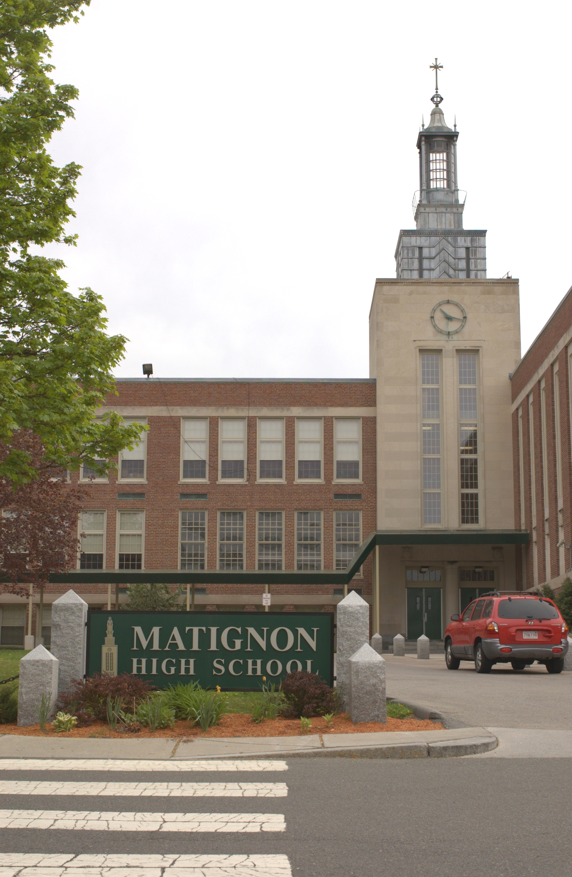 Matignon High School in Cambridge, Massachusetts.